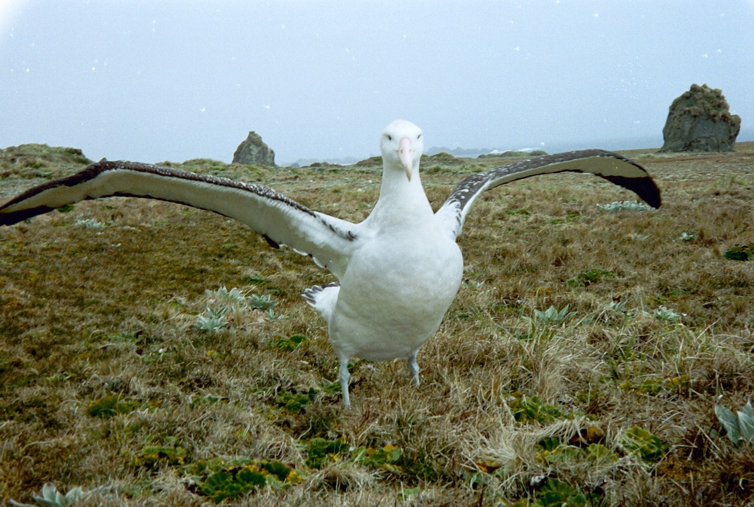 Wandering Albatross - near Eagle Cave Macquarie Island